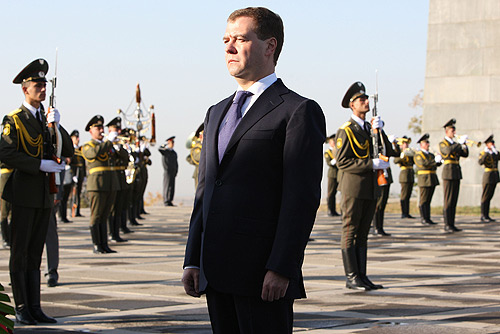 YEREVAN, ARMENIA. At the Memorial Complex in honour of the victims of the Armenian genocide.